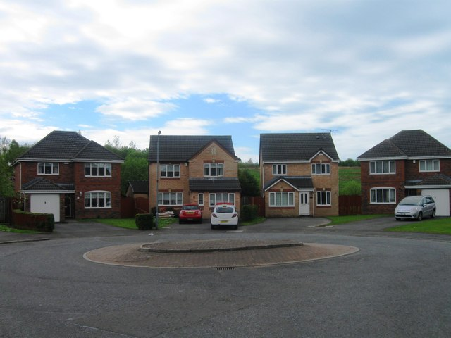 Leglen Wood Drive, Robroyston